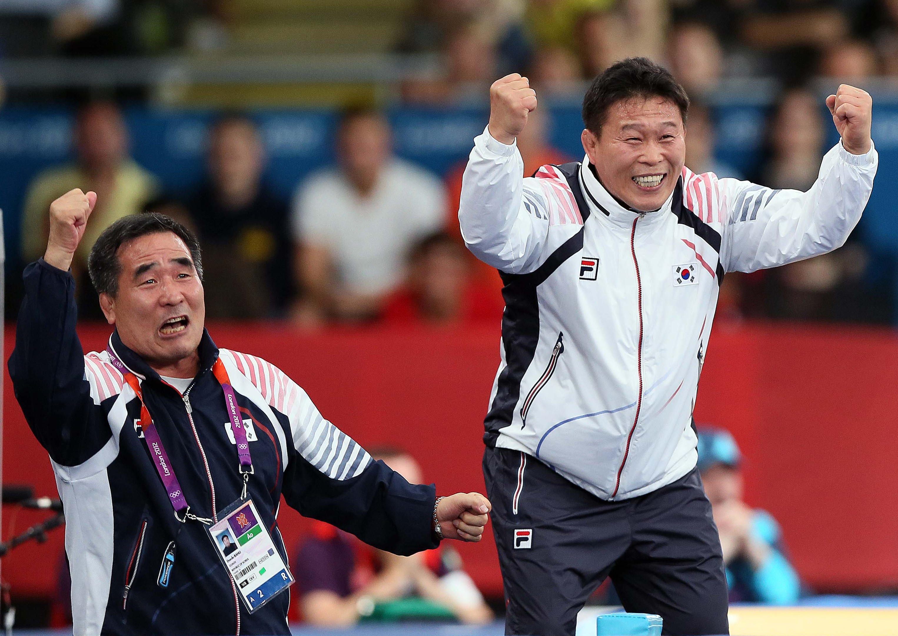 2012 London Olympic Games Korean Wresting Kim Hywonwoo won gold medal in the men's 66kg Greco-Roman. 2012.08.08. Photo by Korean Olympic Committee Ministry of Culture, Sports and Tourism Korean Culture and Information Service 2012 런던 올림픽 남자 레슬링 그레코로만형 66kg 김현우 금메달 획득 사진제공 - 대한체육회 문화체육관광부 해외문화홍보원